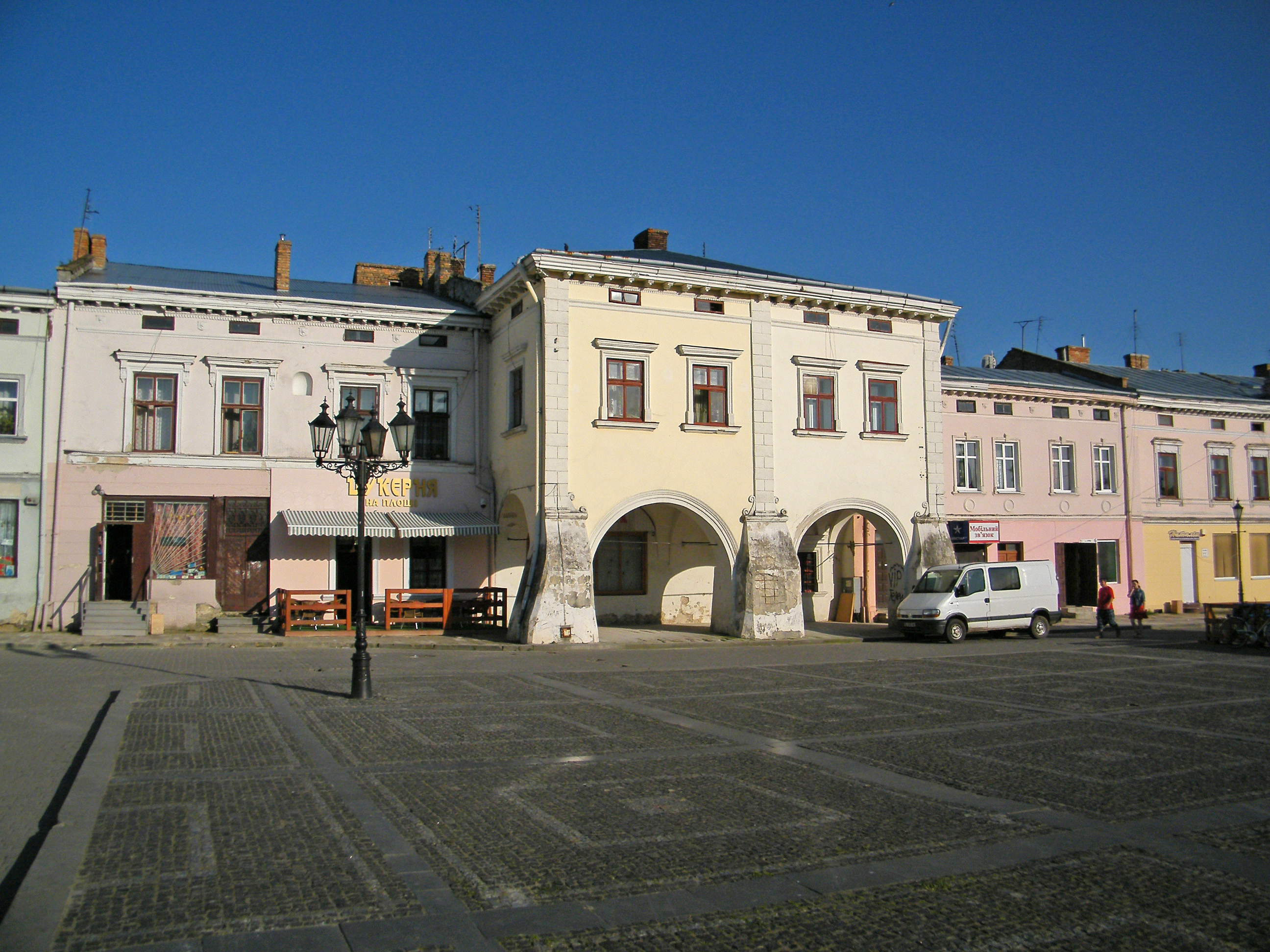 Фрагмент площади Рынок